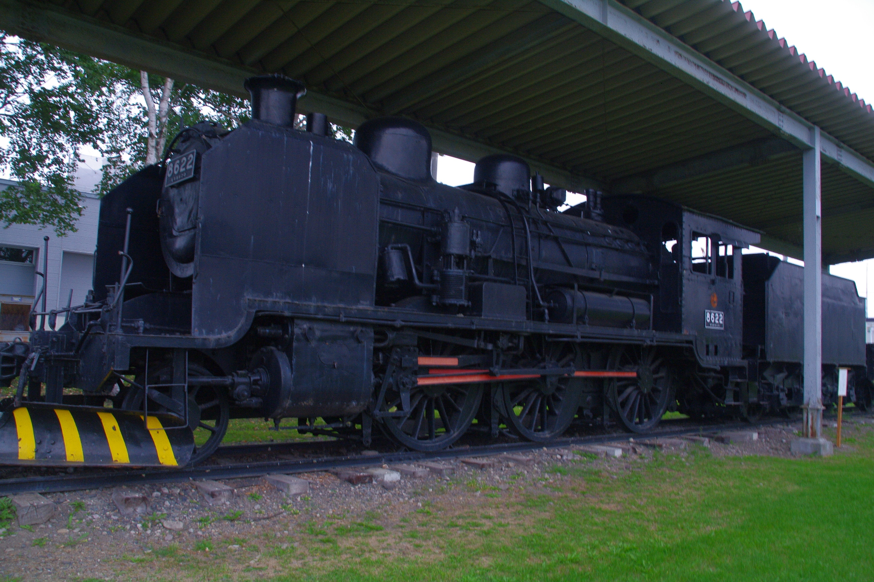 Former Hokkaido Takushoku Railway Class 8620 steam locomotive number 8622 preserved in Shikaoi, Hokkaido, Japan